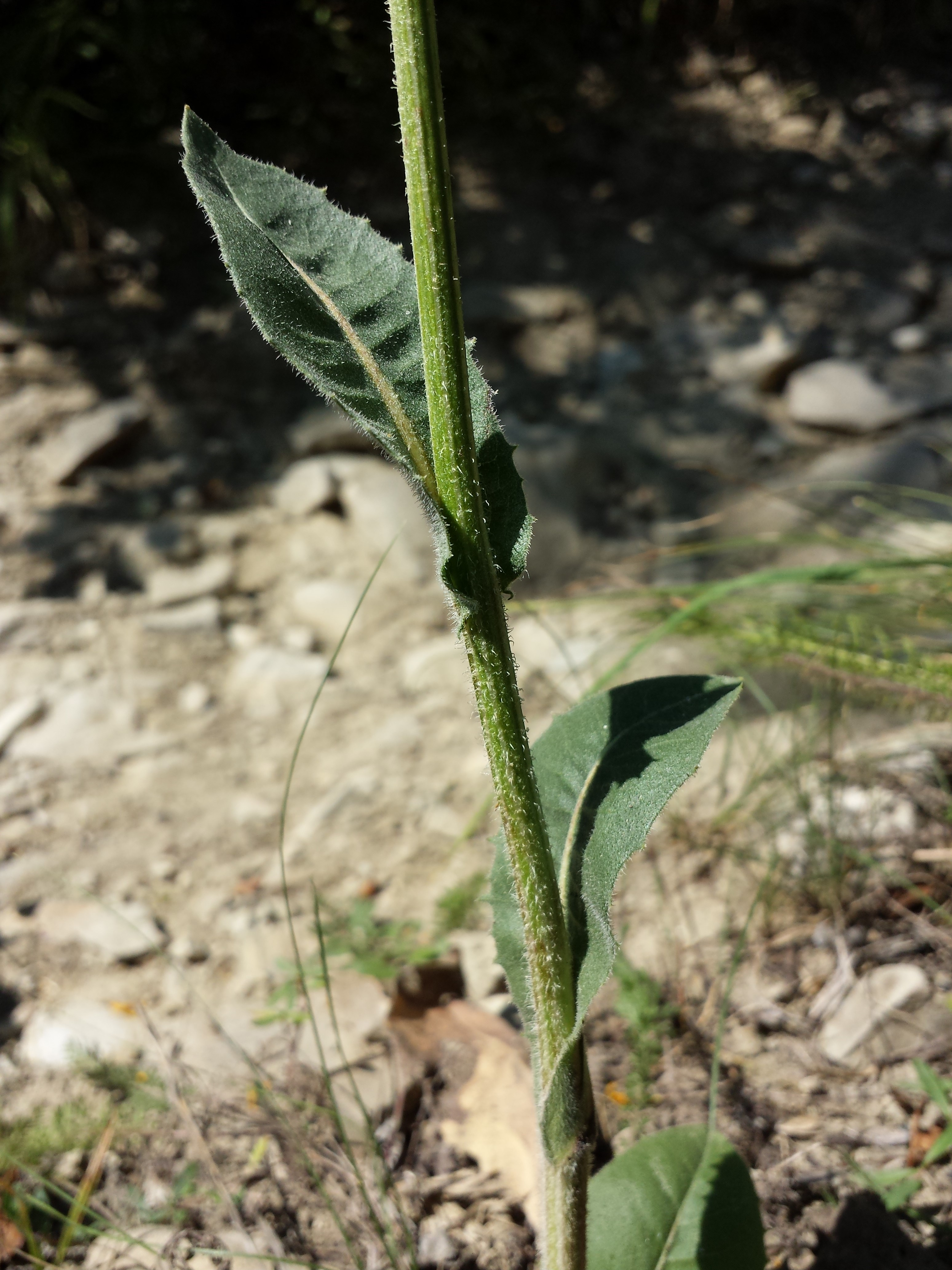 Stipe with stalkless leaves Taxon: Crepis pannonica (sensu Fischer et al. EfÖLS 2008 ISBN 978-3-85474-187-9) Location: Bisamberg west slope, district Korneuburg, Lower Austria - ca. 240 m a.s.l. Habitat: wayside/shrubbery